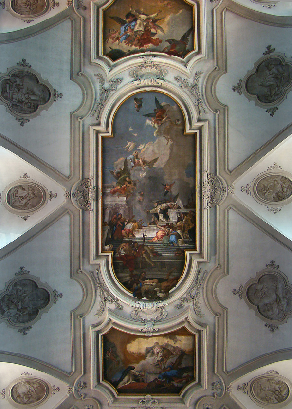 The ceiling by Giovanni Battista Tiepolo — Church of Santa Maria del Rosario (I Gesuati), Venice, Veneto, Italy.